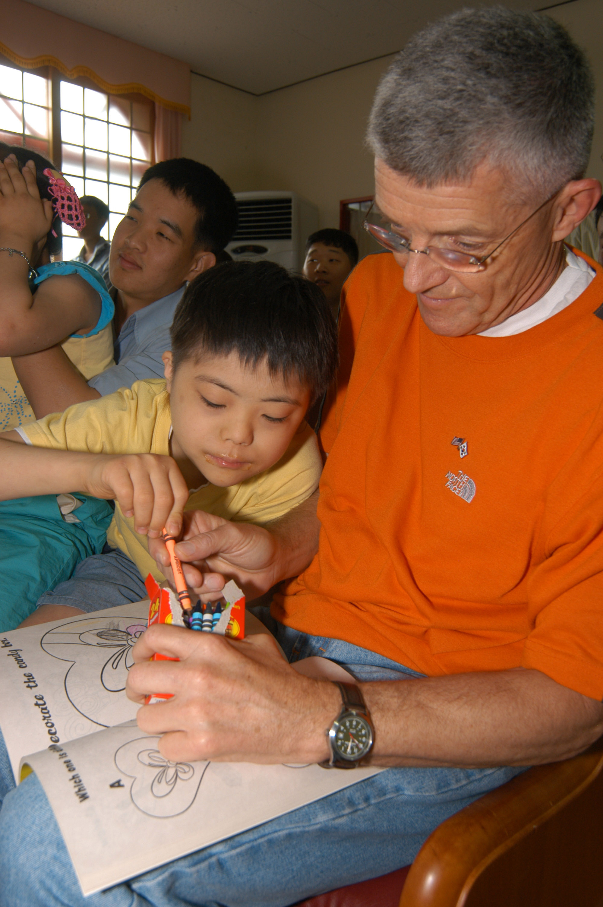 Chinhae, Republic of Korea (June 24, 2006) - Seventh Fleet Chaplain, Capt. Bill Devine helps a child with his coloring book during a community service project at the Jinhae Jae-Hual-Won Orphanage for Handicapped Children. Sailors assigned to USS Blue Ridge (LCC 19) and the embarked Seventh Fleet staff spent the day playing and coloring with the kids and also brought them cookies to snack on. U.S. Navy photo by Photographer's Mate 3rd Class David J. Hewitt (RELEASED)